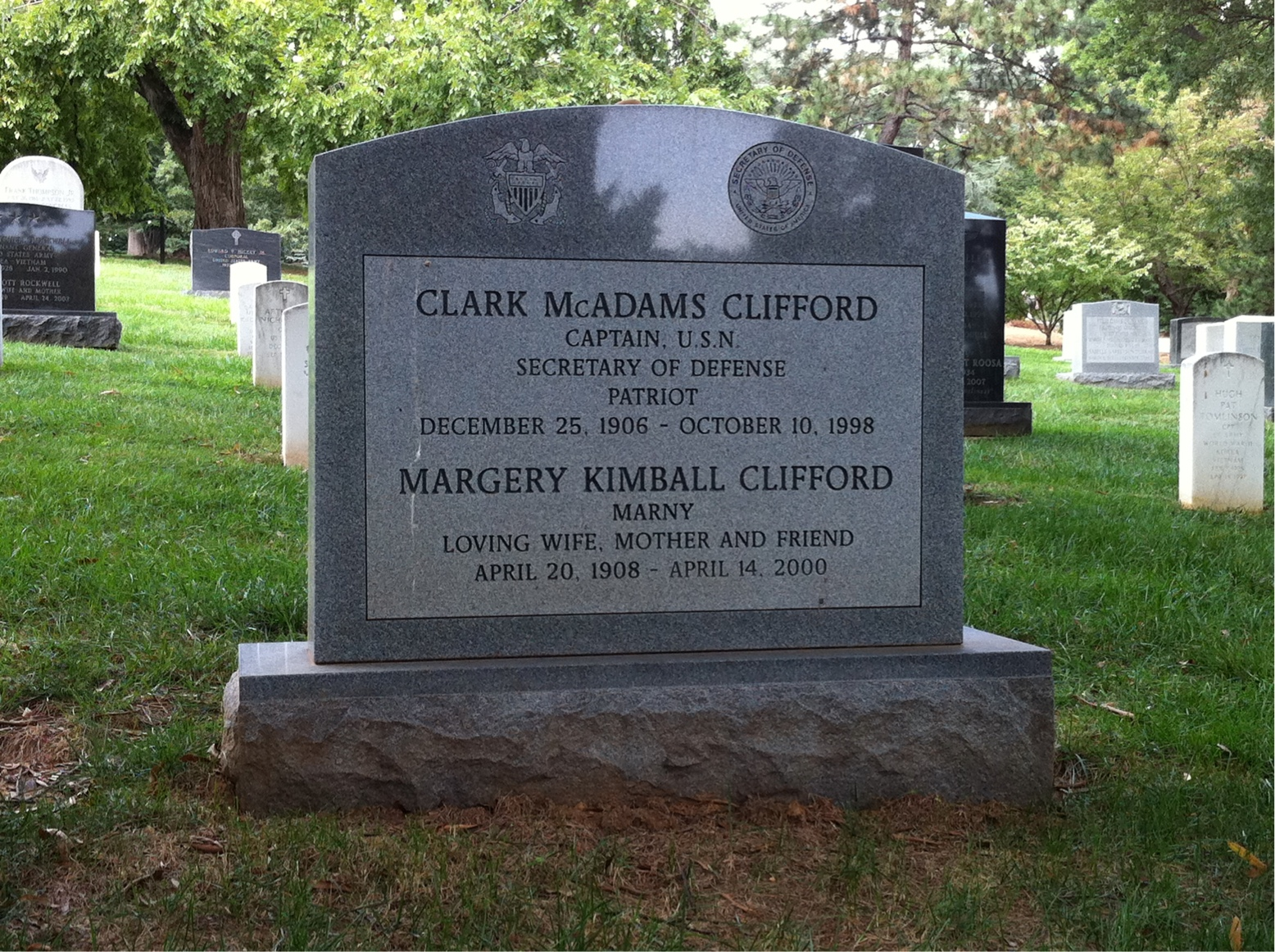 Grave of Clark Clifford at Arlington National Cemetery